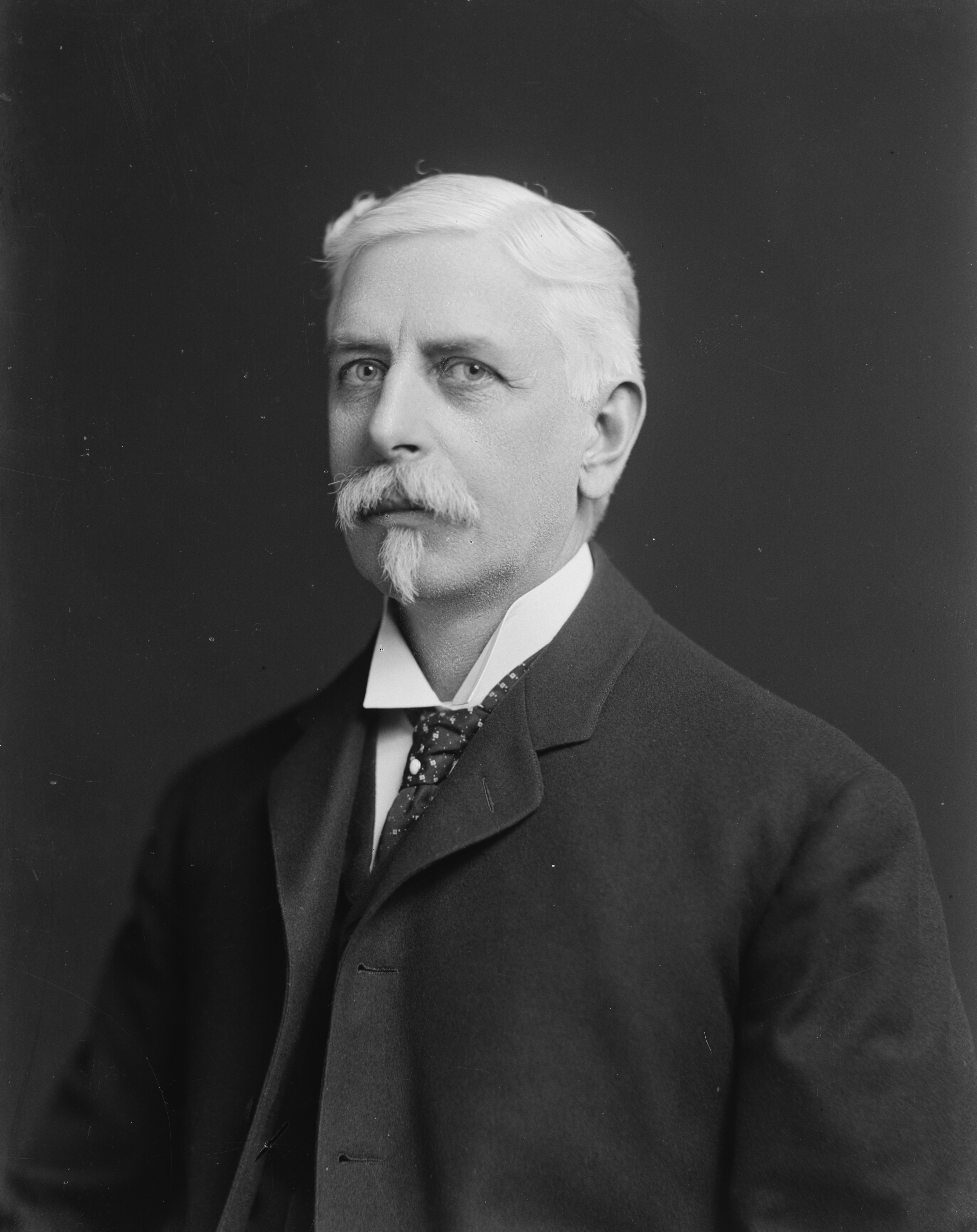 Daniel Elmer Salmon between 1903-1905 photographed by C. M. Bell Studio